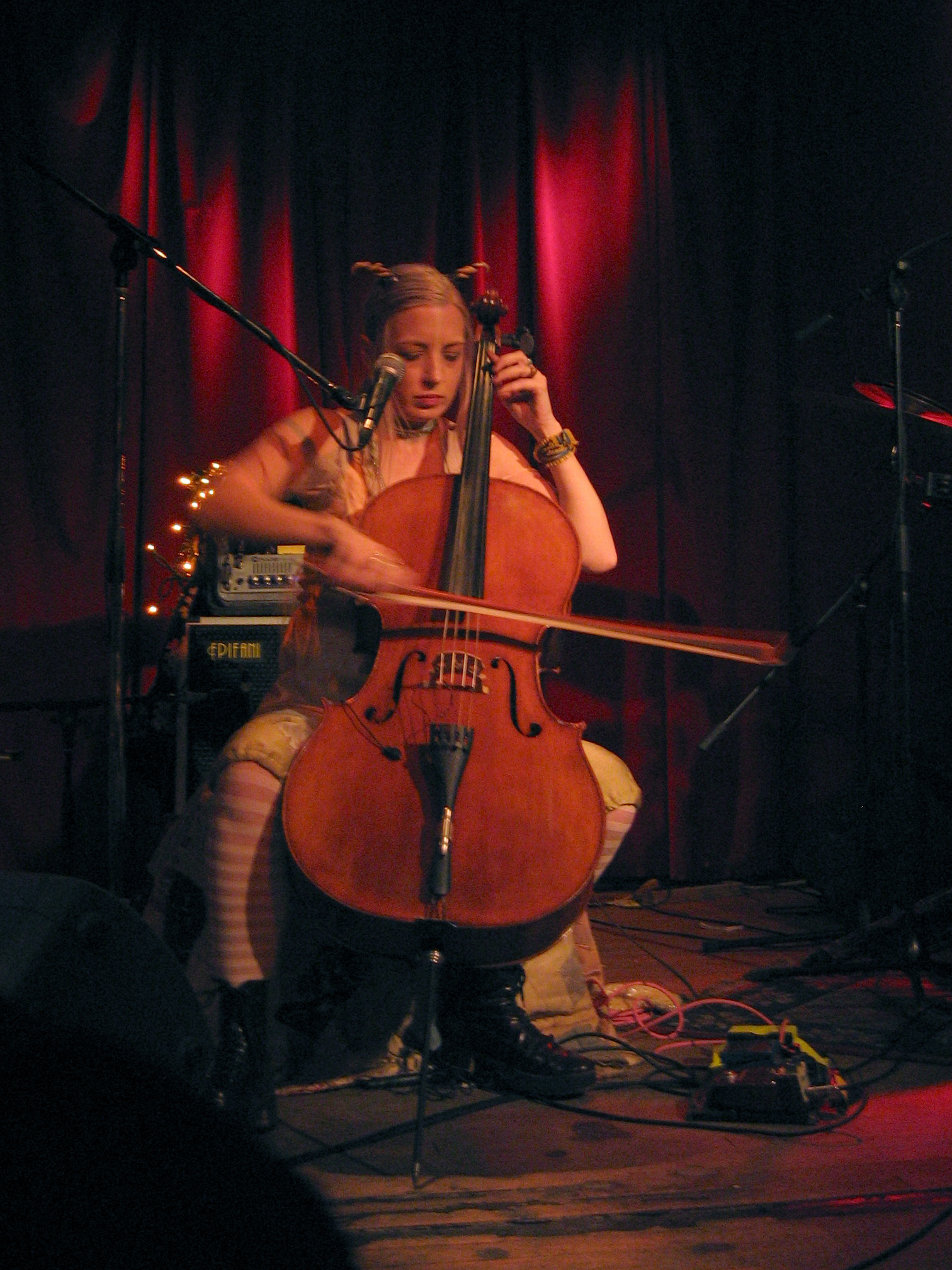 Melora Creager, leader of cello rock band Rasputina.